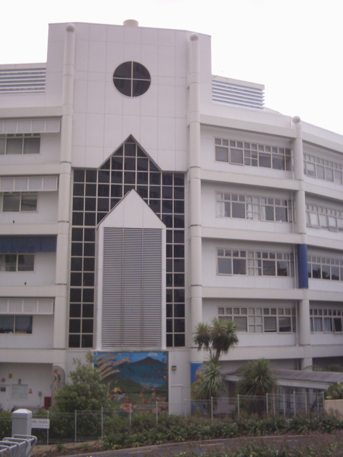 Starship Children's Health hospital in Auckland City, New Zealand. Front entrance, looking from the Auckland City Hospital to the north.